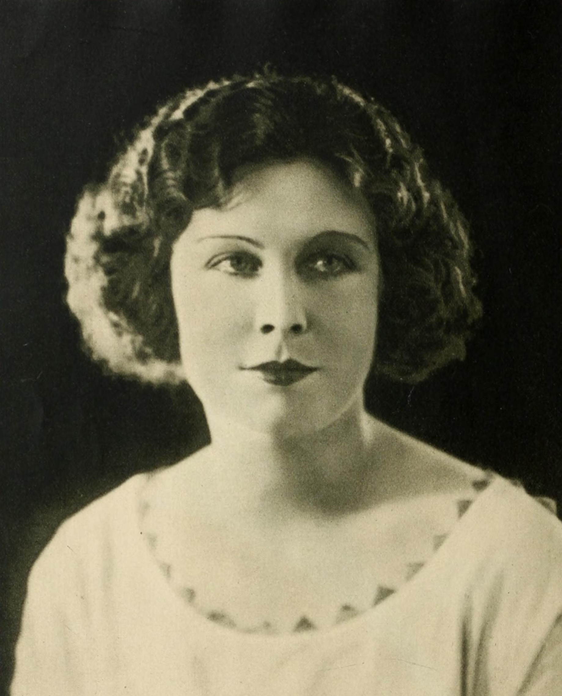 Publicity photo of Dorothy Dalton from Stars of the Photoplay. Dorothy Dalton was born in Chicago, September 22, 1893. She was educated in the Sacred Heart Academy, Chicago, and upon graduation, began her stage career in a stock company and in vaudeville. She then joined the Thomas H. Ince picture company. "Black is White," "Fools' Paradise" and "The Woman Who Walked Alone," are among her well known pictures. Her versatility and personal charm have won her a place among the leading picture stars. She is five feet, four and one-half inches tall, weighs 127 pounds, has brown hair and grey eyes. She loves the out-of-doors.